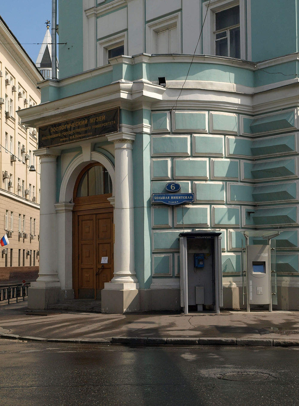 Bolshaya Nikitskaya Street, Moscow. University buildings of 1898-1901 - the Zoology Museum entrance